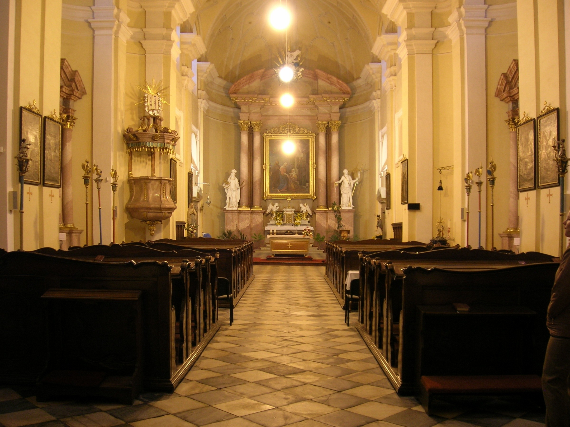 Lomnice church